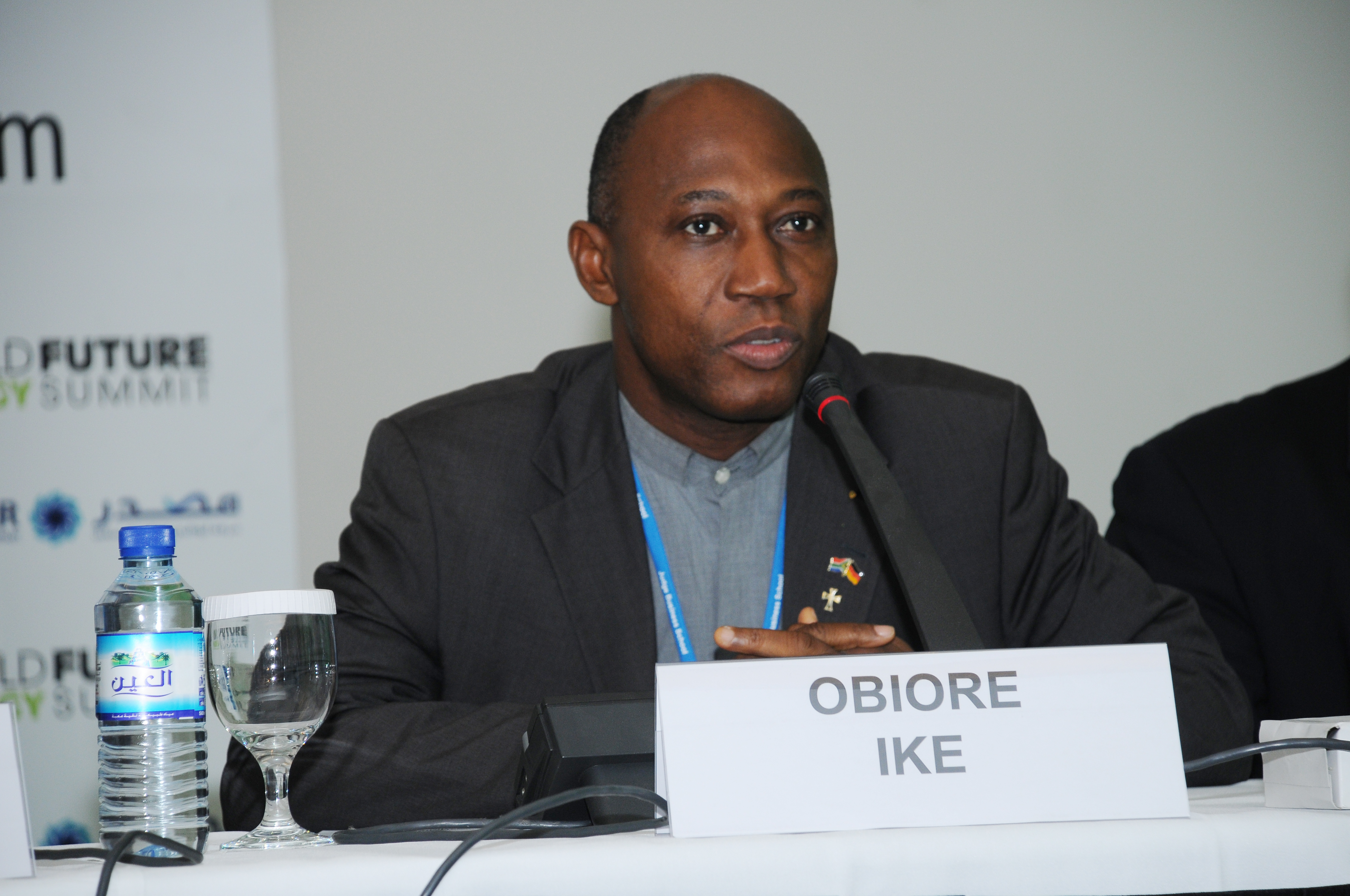 Abu Dhabi / UAE, 21 January 2009 - Obiora Ike, Director of the Catholic Institute for Development, Justice and Peace (Nigeria), responds to questions during the Agenda for the New Millennium press conference, organized in cooperation with the World Future Energy Summit.